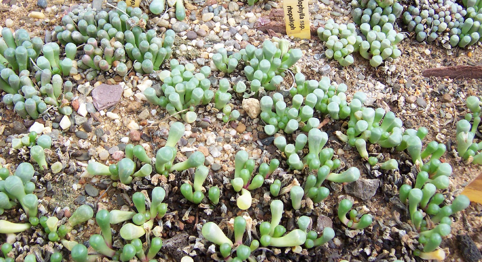 Fenestraria rhopalophylla ssp. rhopalophylla, habitus (file name is an error)